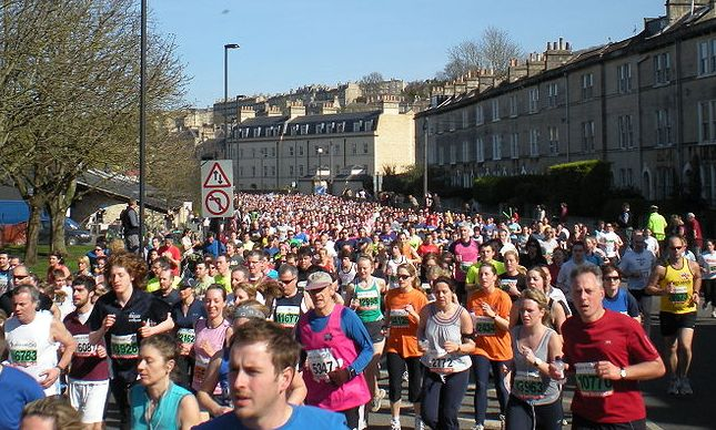 The 2009 Bath Half Marathon.